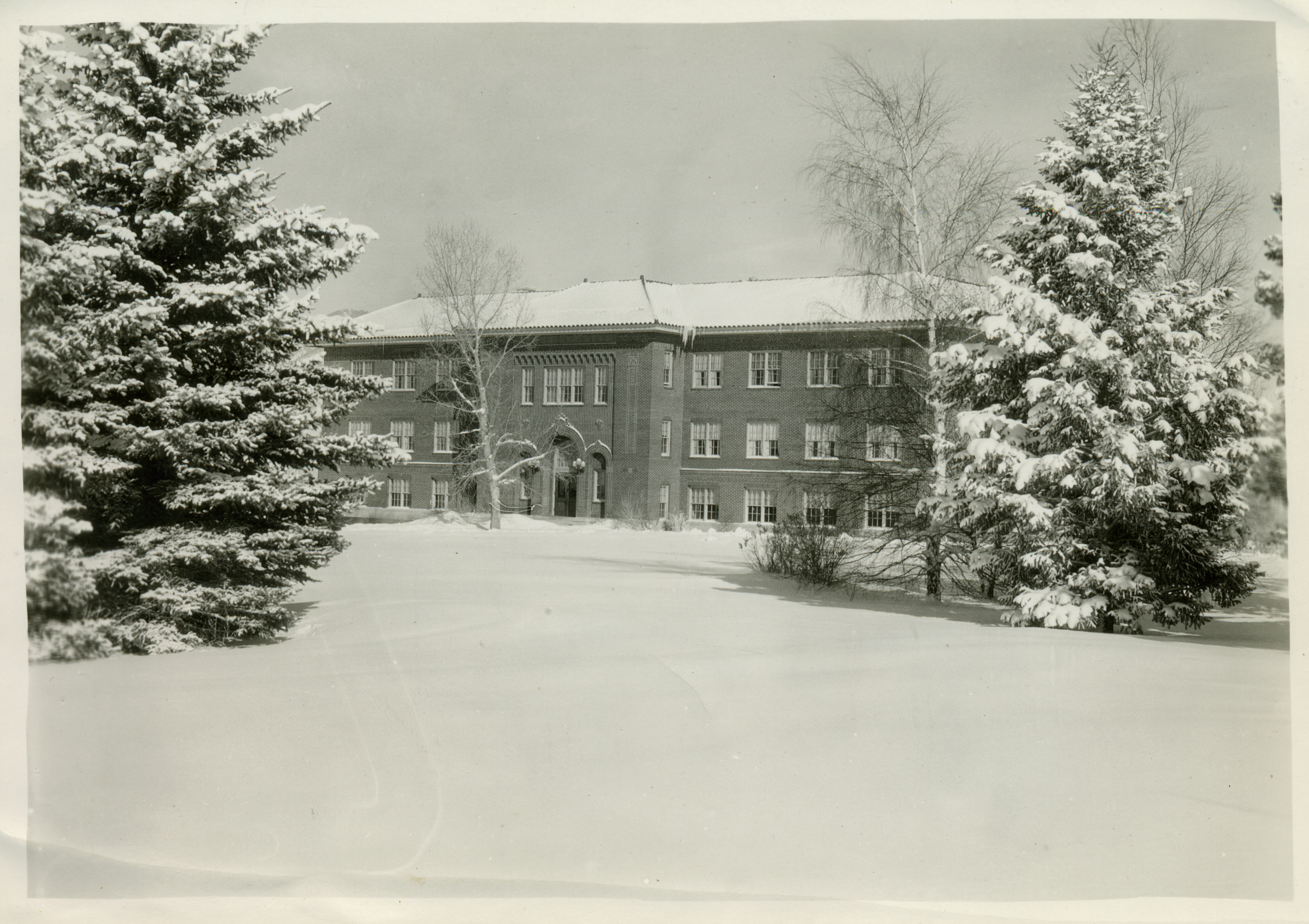 Title: Herrick Hall in the snow, 1933 Creator: unknown Date: 1933 Description: Herrick Hall surrounded by snow on Montana State College's campus. Notes: Physical Description: Photo print - Black and White Subjects: Herrick Hall Montana State College--Buildings Keywords: herrick hall, snow Photograph ID: parc-000330